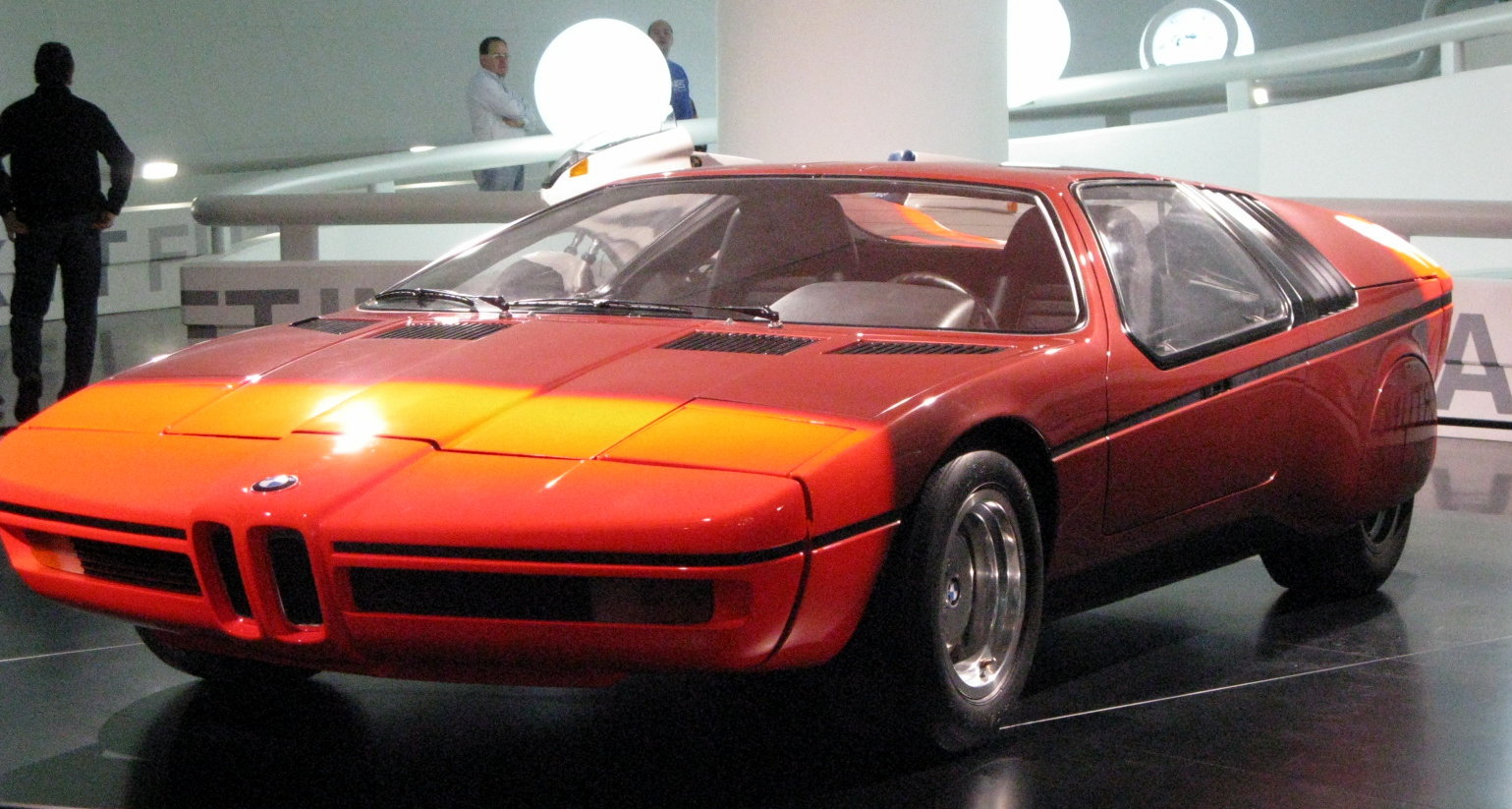 1972 BMW Turbo prototype